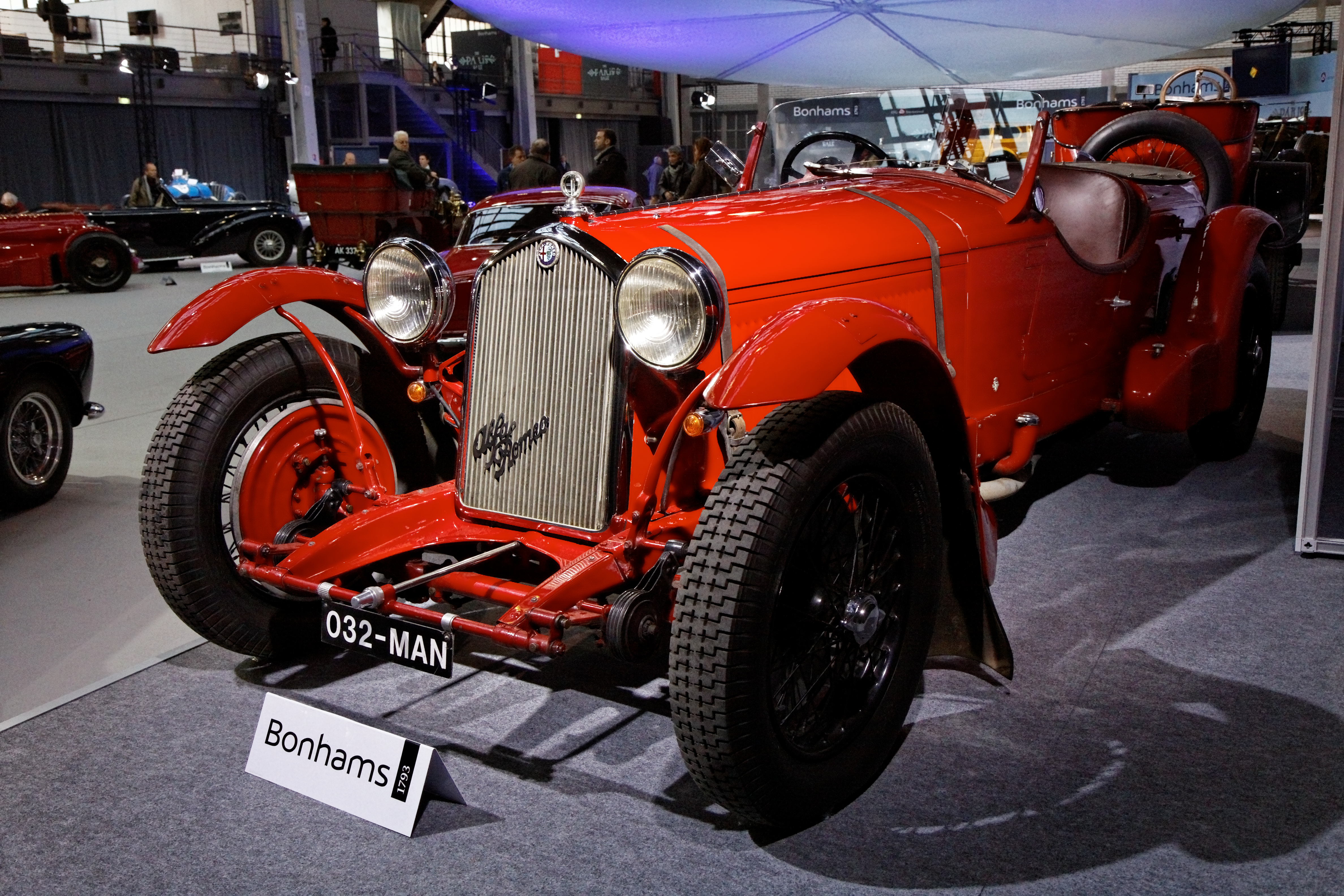 Alfa Romeo 8C 2300 Spider châssis long